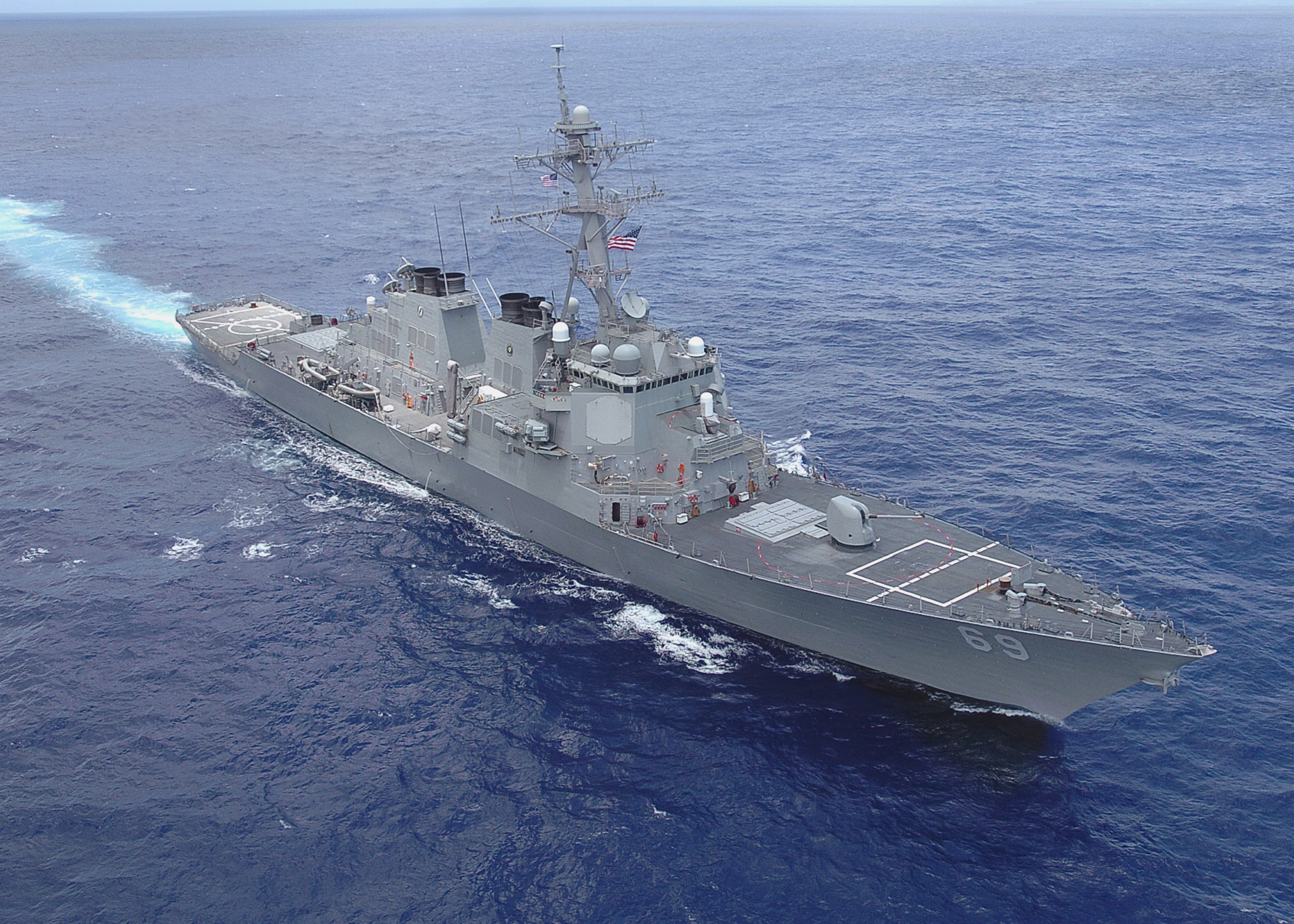 PACIFIC OCEAN (May 1, 2007) - Guided missile destroyer USS Milius (DDG-69) steams in formation during a photo exercise near Guam. Bonhomme Richard Expeditionary Strike Group consists of Amphibious Squadron 7, amphibious assault ship USS Bonhomme Richard (LHD-6), amphibious transport dock USS Denver (LPD-9), dock landing ship USS Rushmore (LSD-47), USS Milius, guided missile destroyer USS Chung-Hoon (DDG-93), guided missile cruiser USS Chosin (CG-65), and 2,200 combat ready Marines of the 13th Marine Expeditionary Unit.